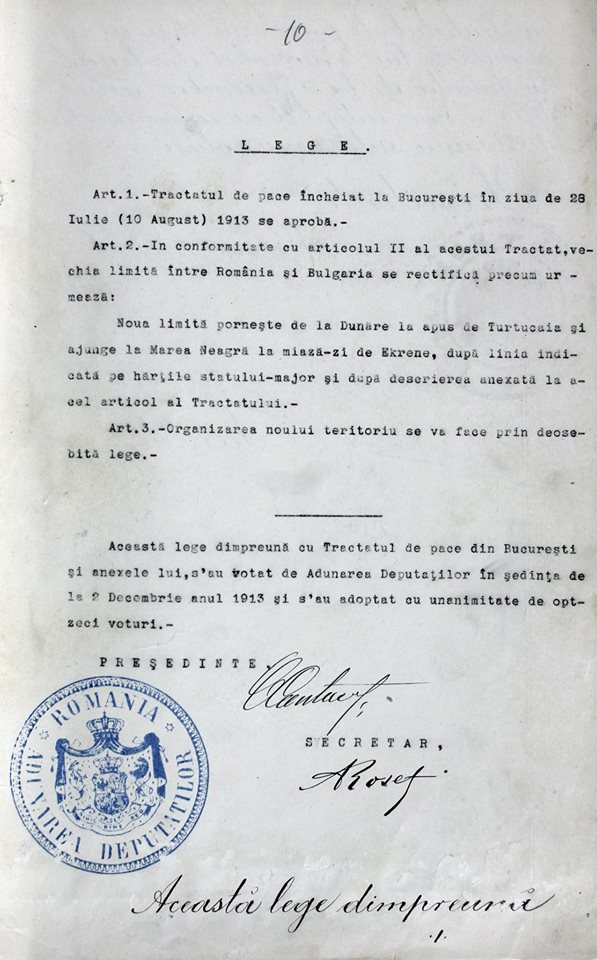 Law for ratification of the union of Cadrilater with Romania, 1913